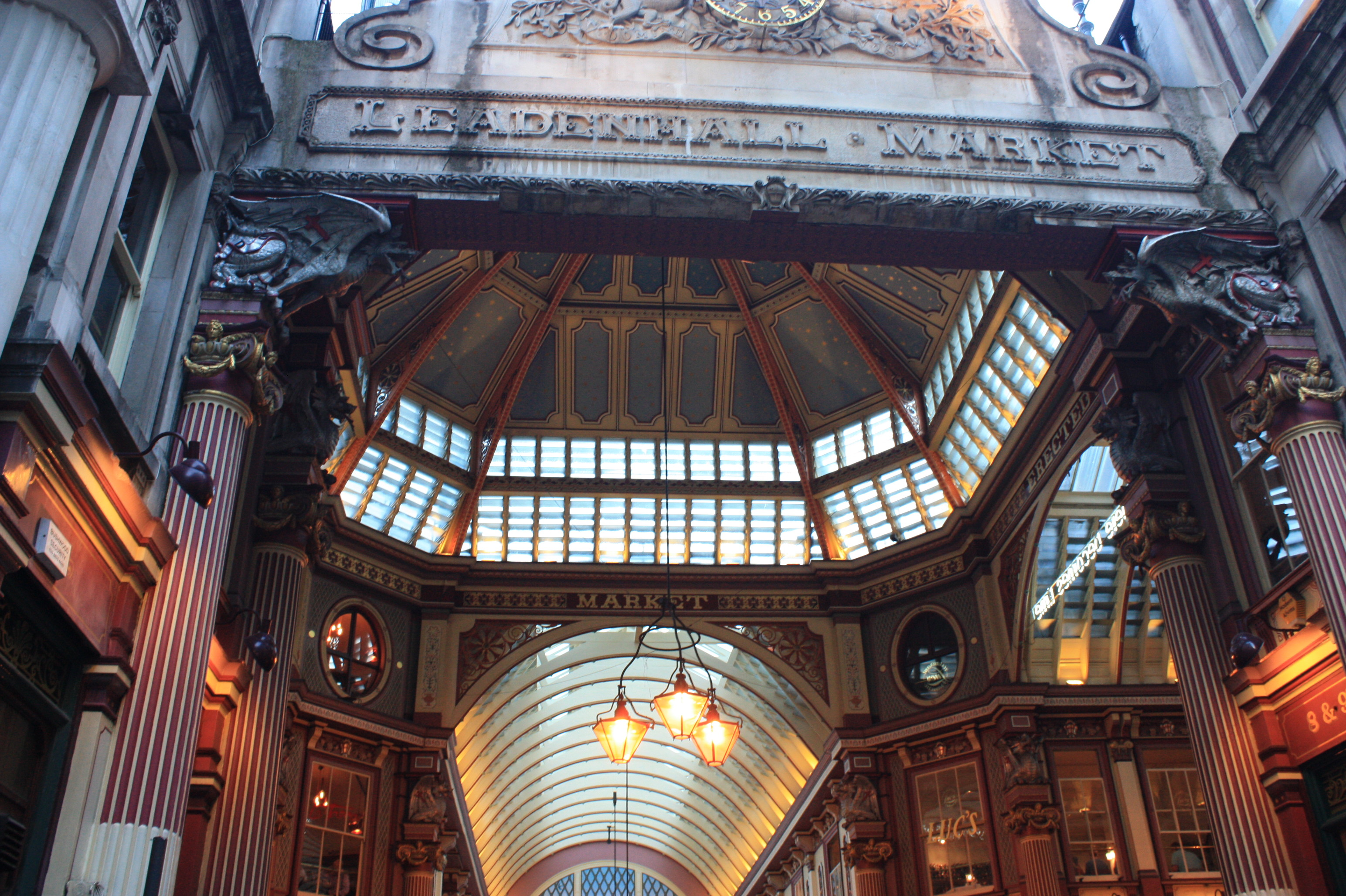 Leadenhall Market, entrance arch